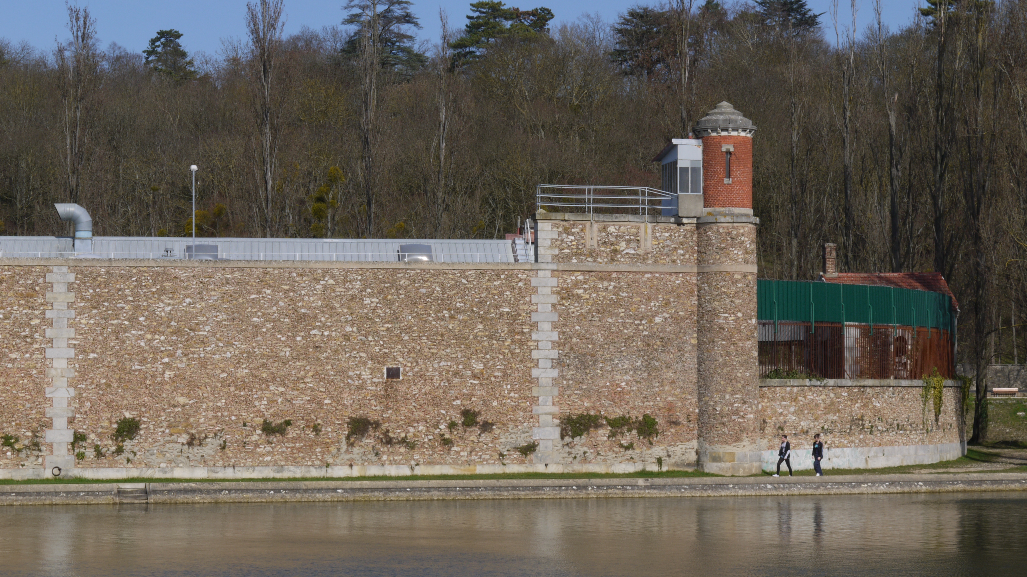 Melun "Maison centrale" prison on the Île Saint-Étienne, France